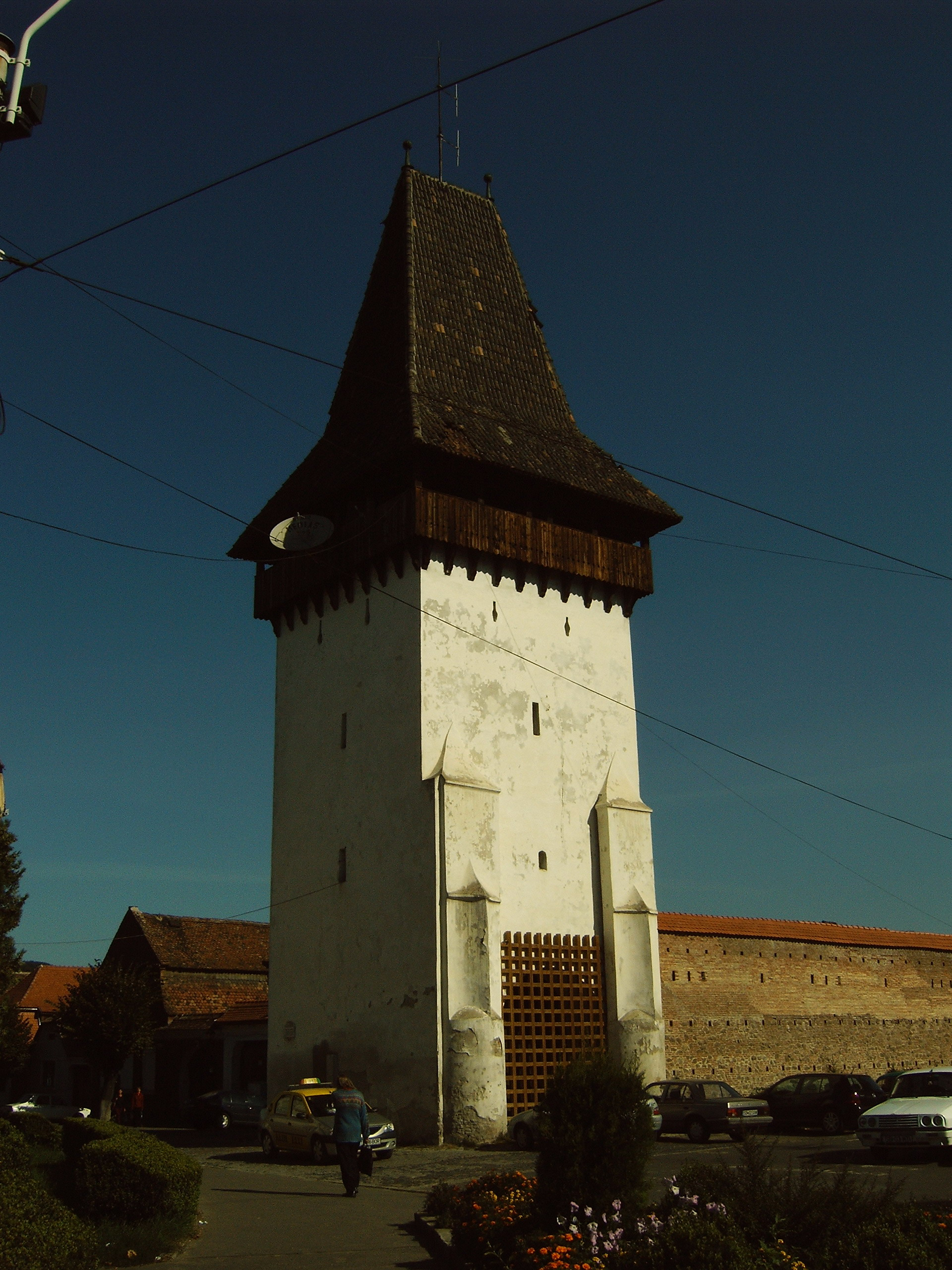 Tower, Mediaş, Transylvania, Romania